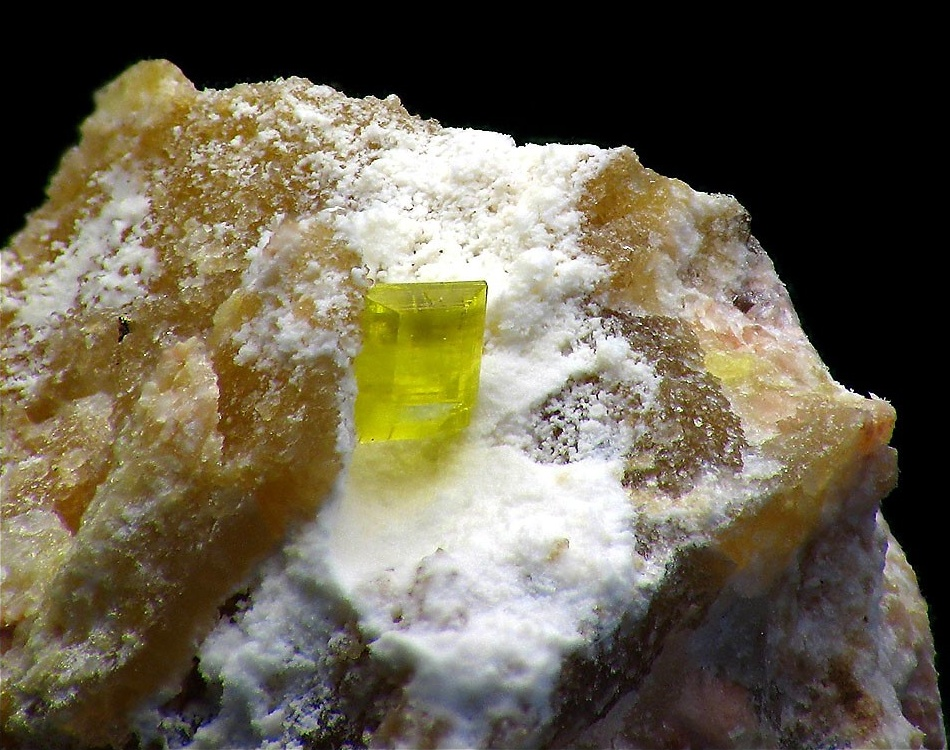 Saléeite (crystal size 1mm) Locality: La Commanderie mine, Le Temple, Deux-Sèvres, Poitou-Charentes, France